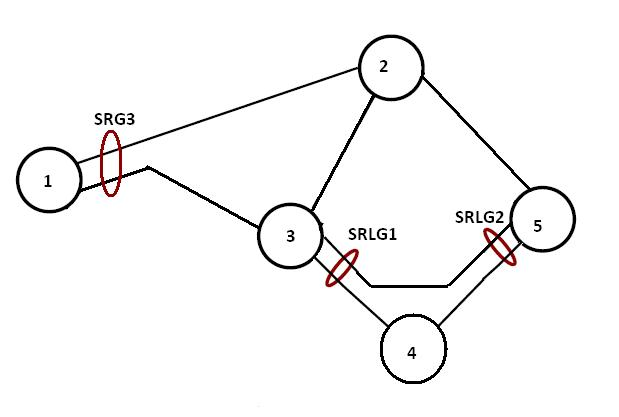 example of original topology